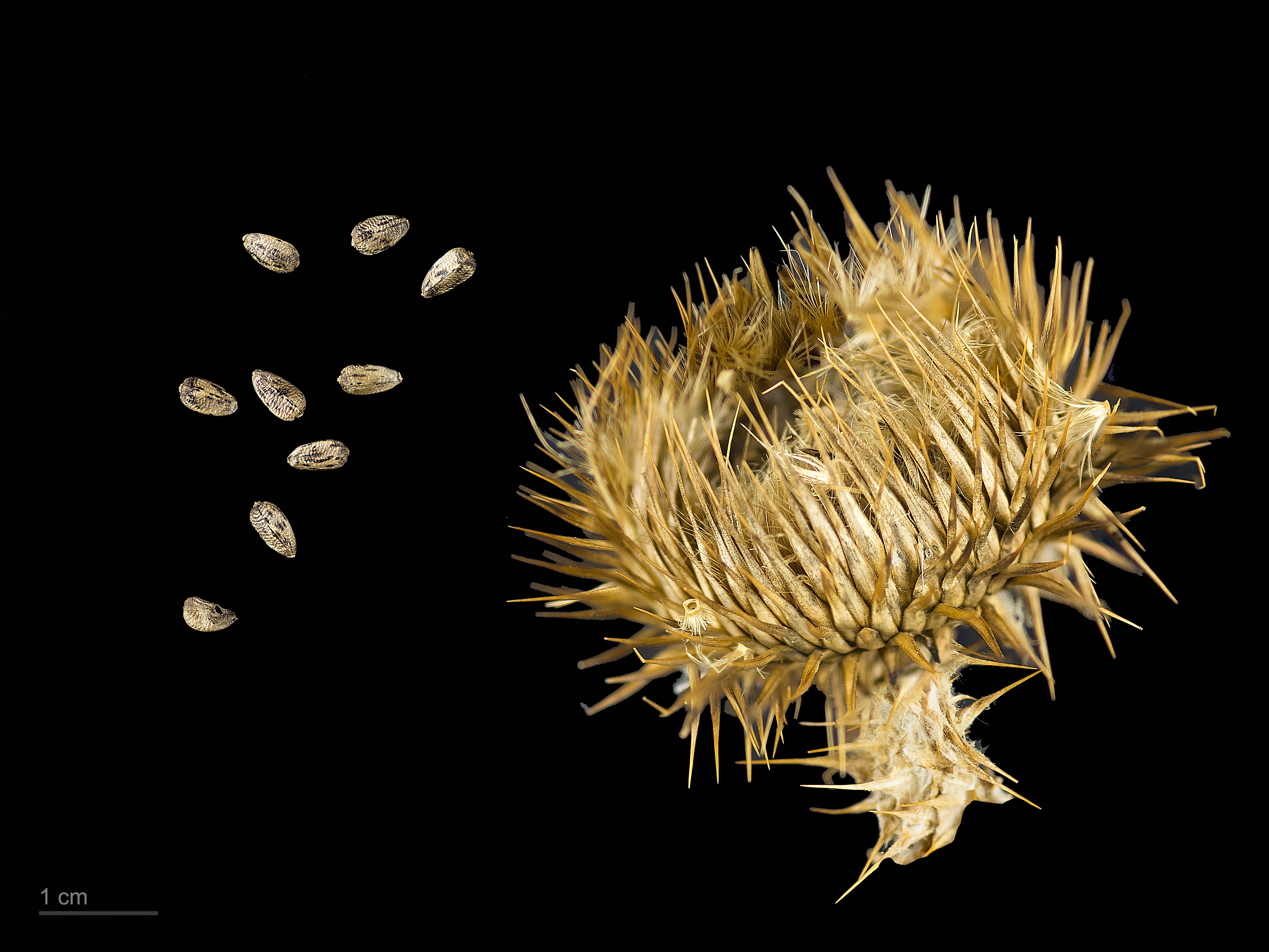 Cotton thistle , fruits and seeds